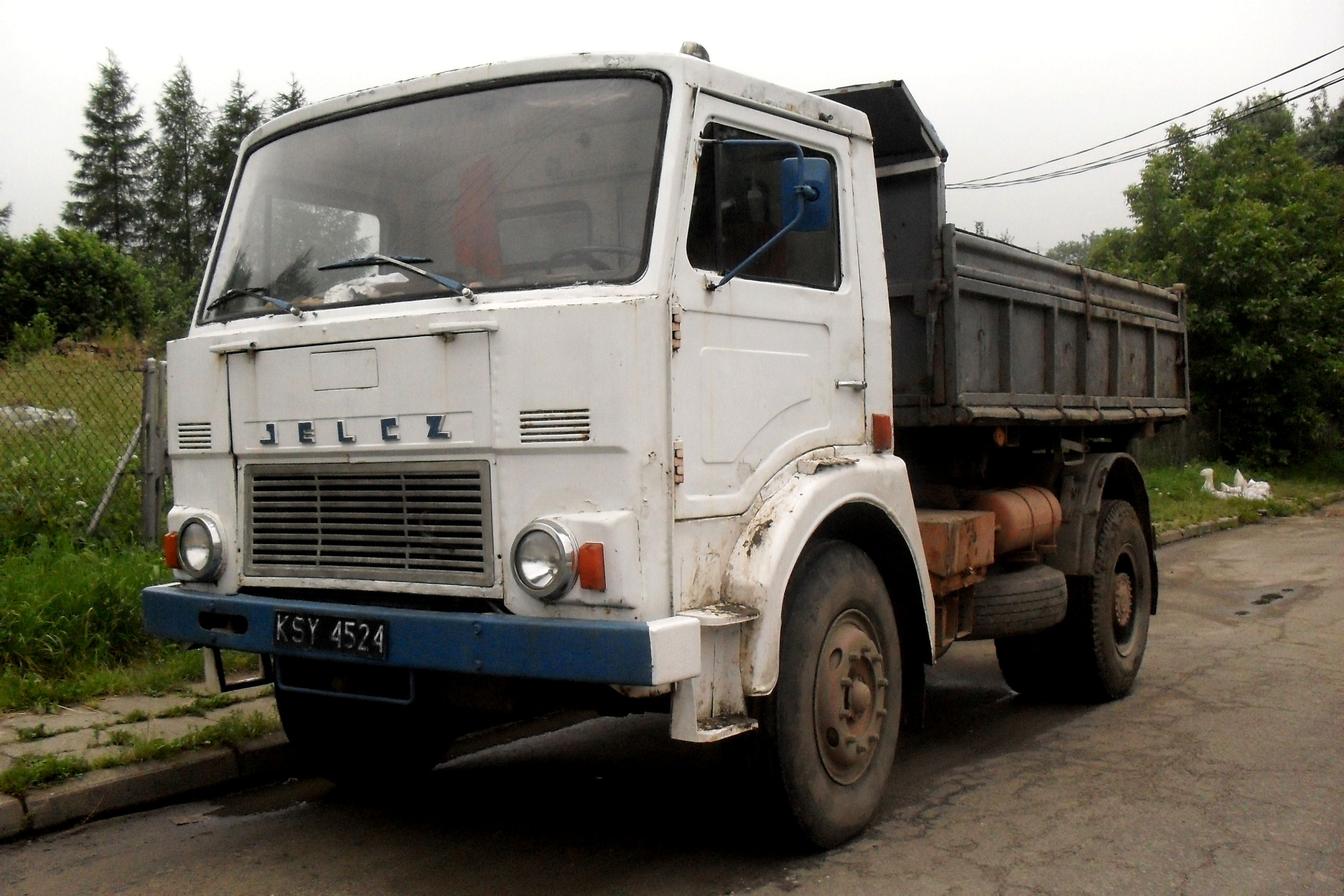 Jelcz 3W317-821 truck seen in Jasło, Poland.